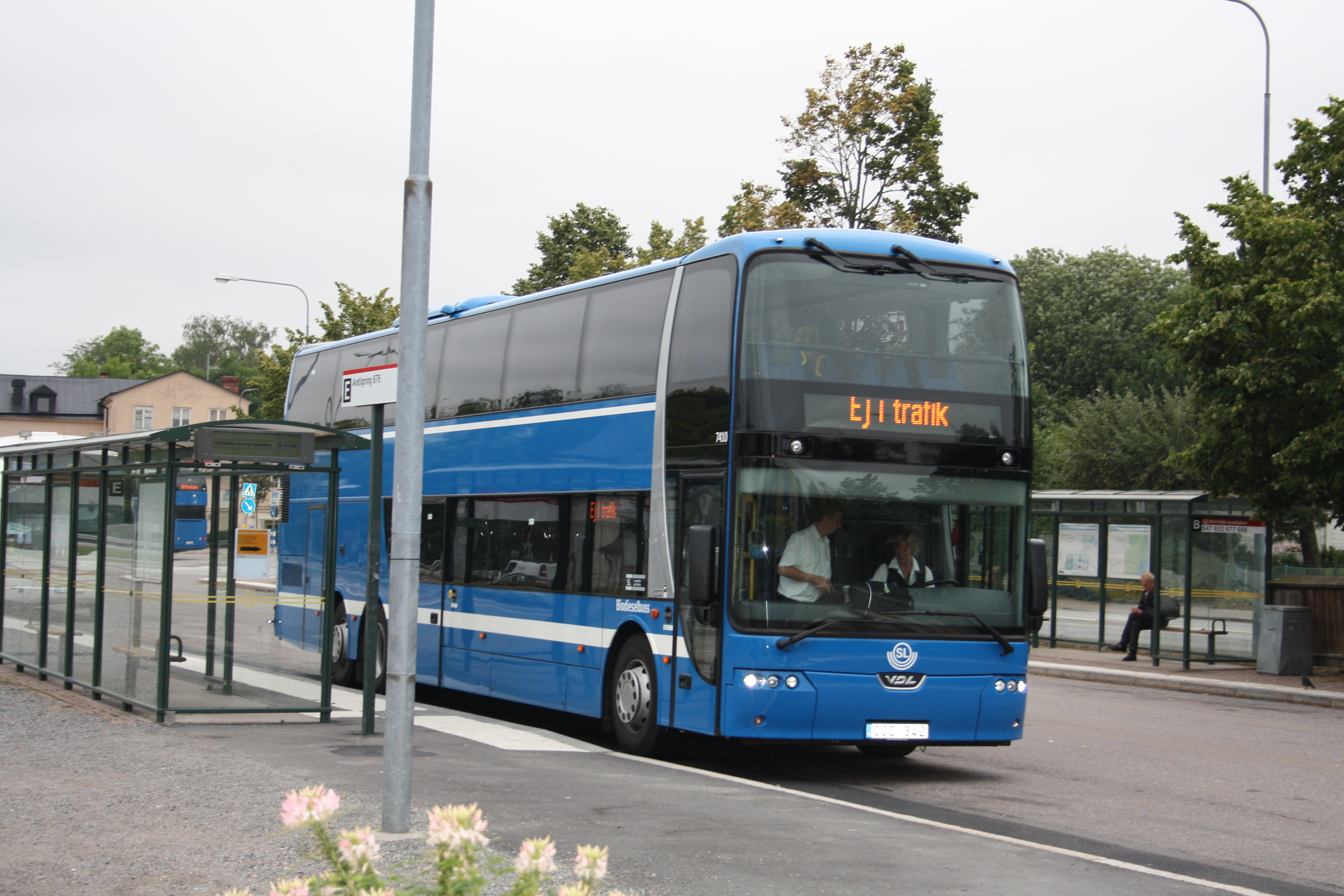 VDL Synergy SDD138-510 double-decker coach (reg. COC 342, #7410) in Norrtälje Station, Stockholm, Sweden. Built 2011. Storstockholms Lokaltrafik.